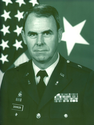 This is an official U.S. Army photo and is in the public domain.